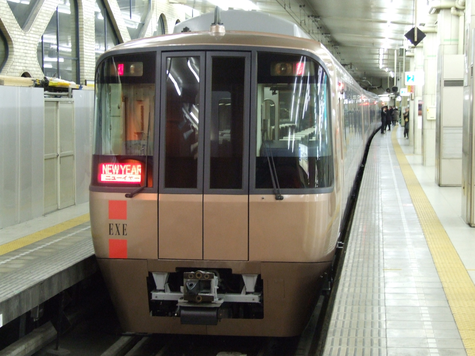 〝New Year Express〟of Model 30000 -Odakyu RomanceCar EXE-,Odakyu Electric Railwey,Japan